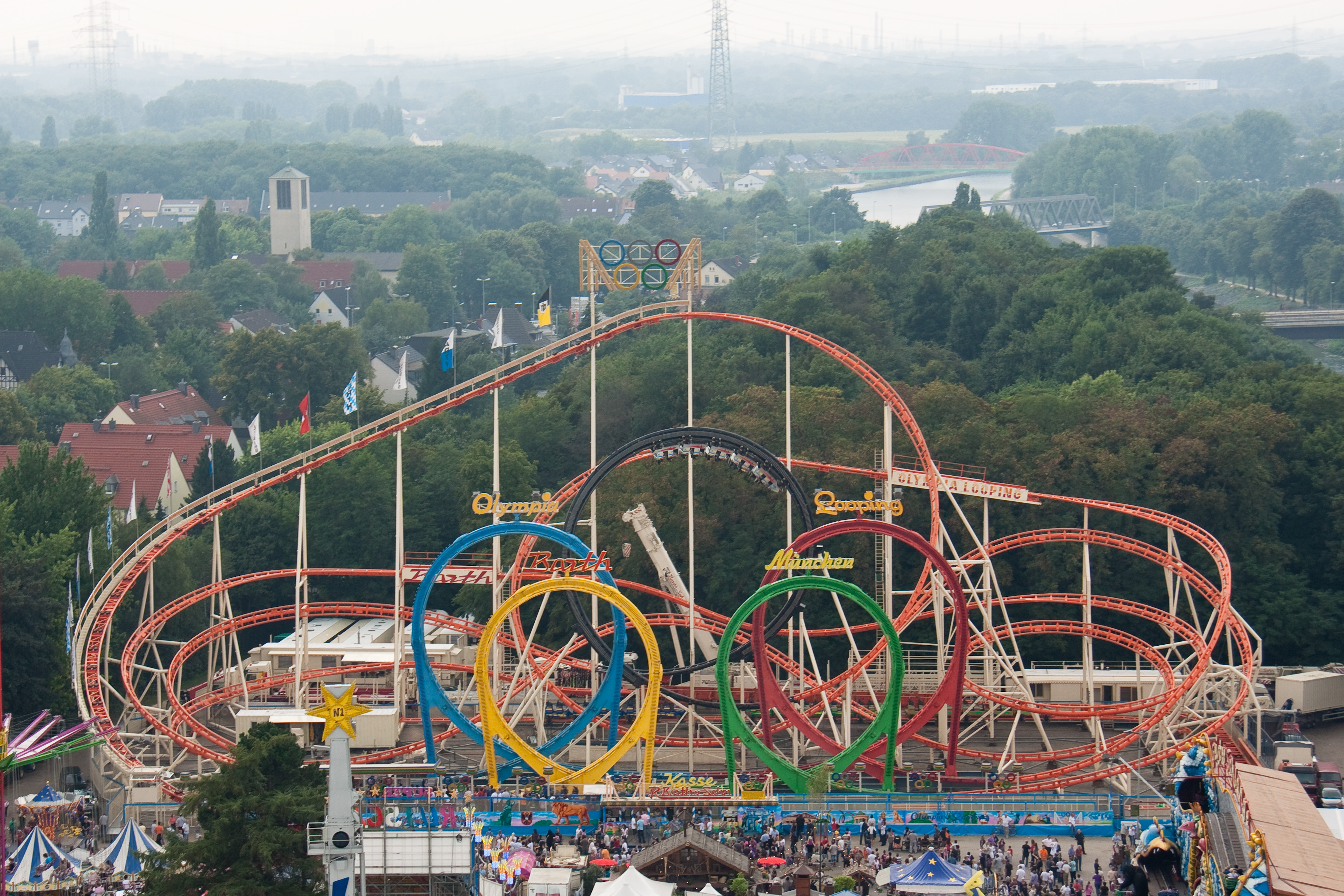 Roller coaster Olympia Looping at Cranger Kirmes 2009